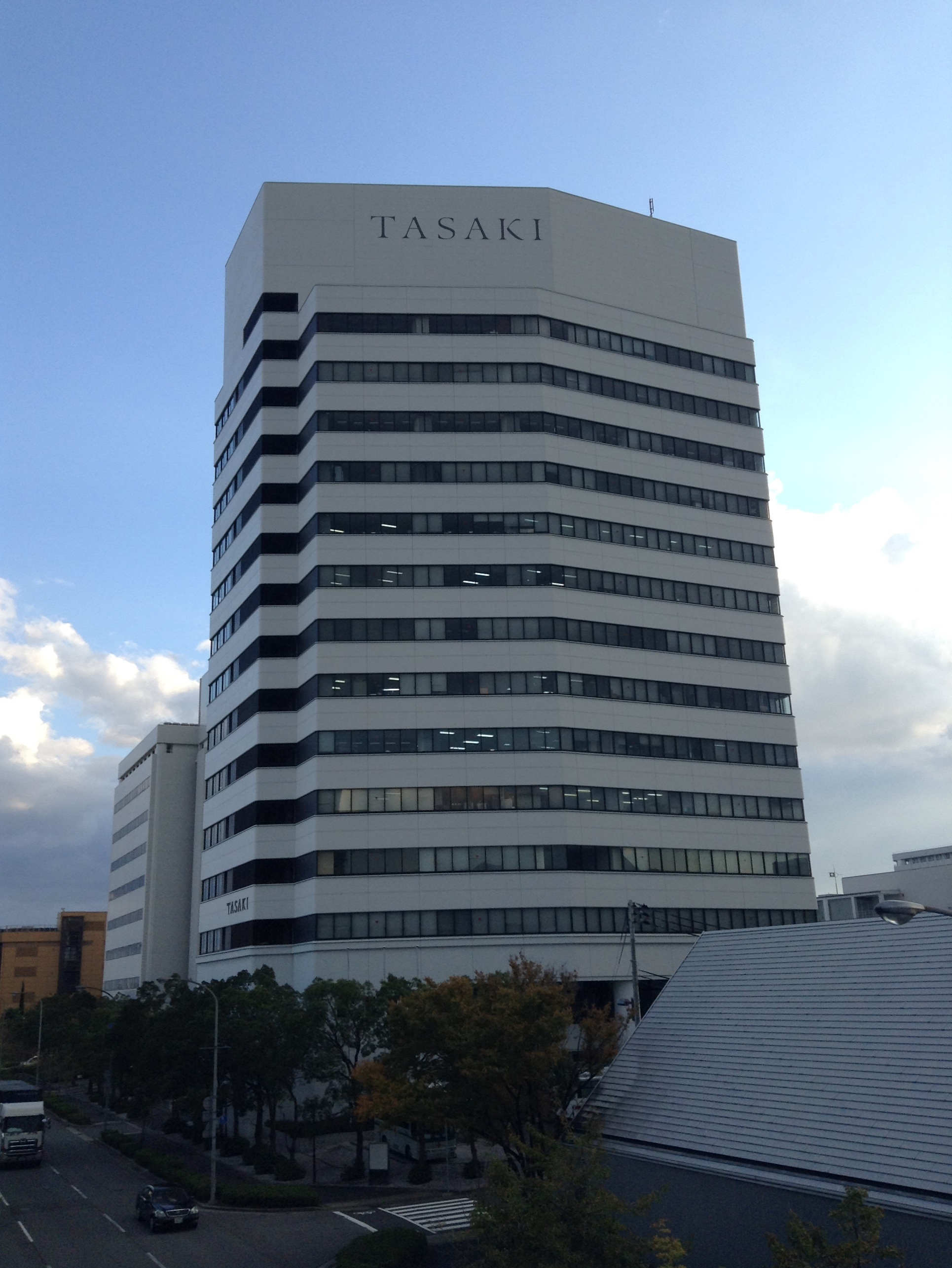 TASAKI & Co.,Ltd. Nishinomiya-Factory.